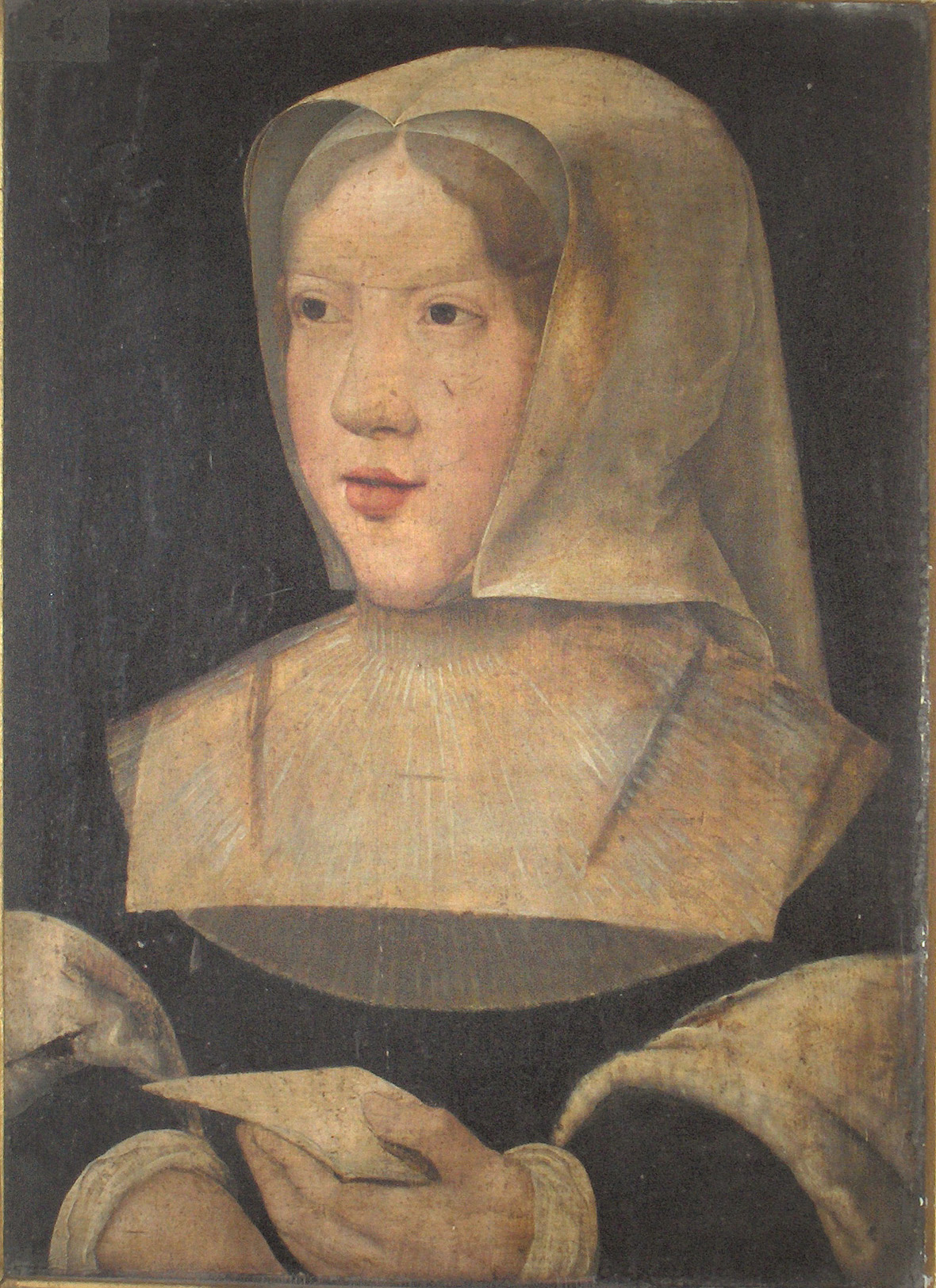 Margaret wears the deuil blanc or "white mourning" veils.